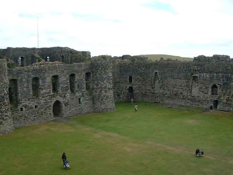 The inner ward of Beaumaris. (Photo by Mick Knapton licensed under GFDL)